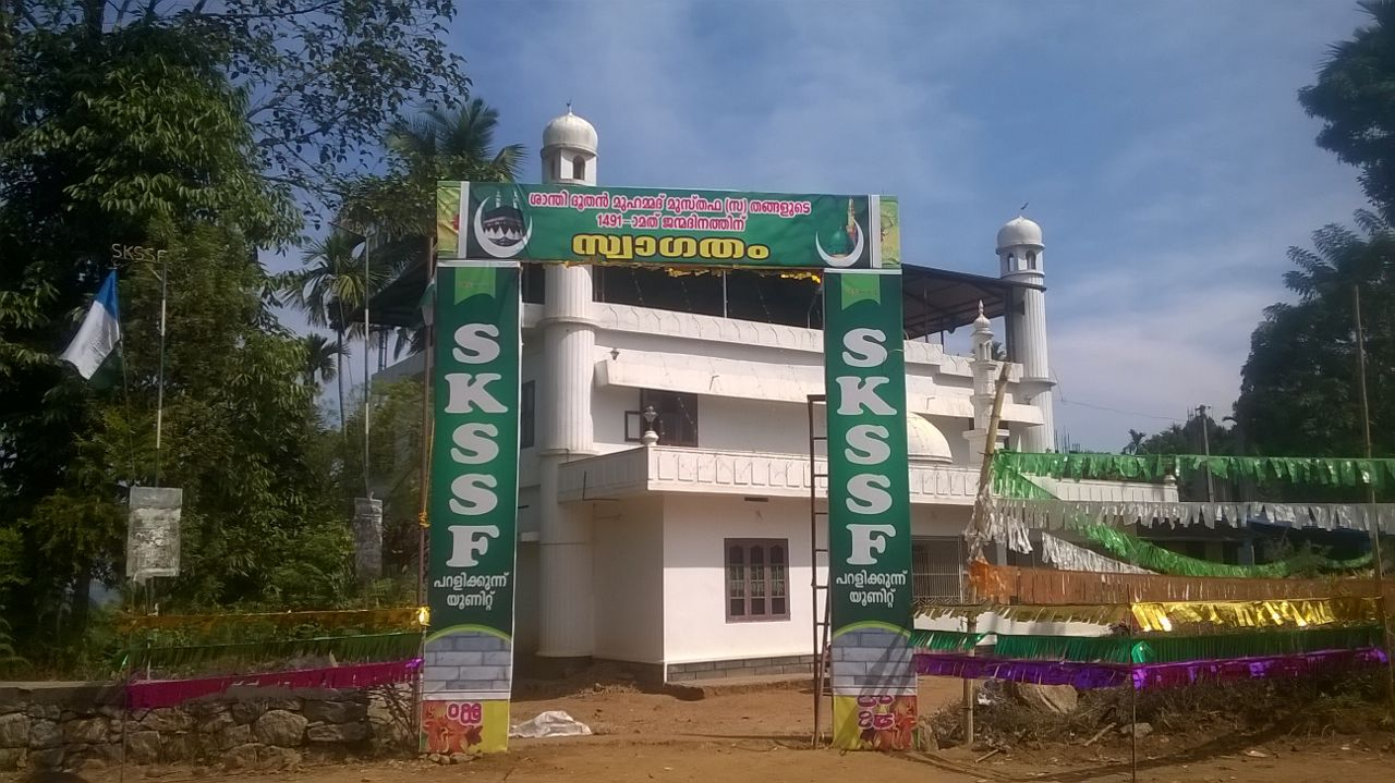 Meelad Shareef Celebration In Paralikkunnu.